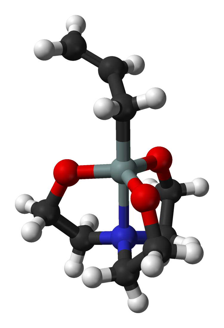 Ball-and-stick model of the allyl silatrane molecule, C9H17NO3Si. X-ray crystallographic data from J. M. White and S. Jones (June 1999). "Low-temperature structure of allyl silatrane". Acta Cryst. C55 (6): 962-963. Image generated in Accelrys DS Visualizer.